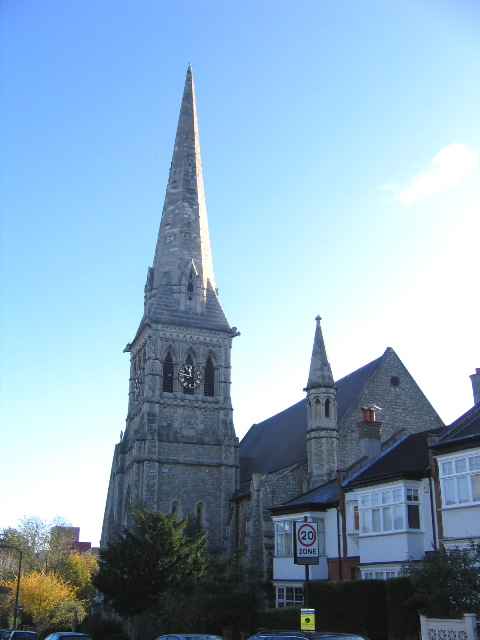 Holy Trinity parish church, Trinity Rise, Tulse Hill, South London, seen from the west